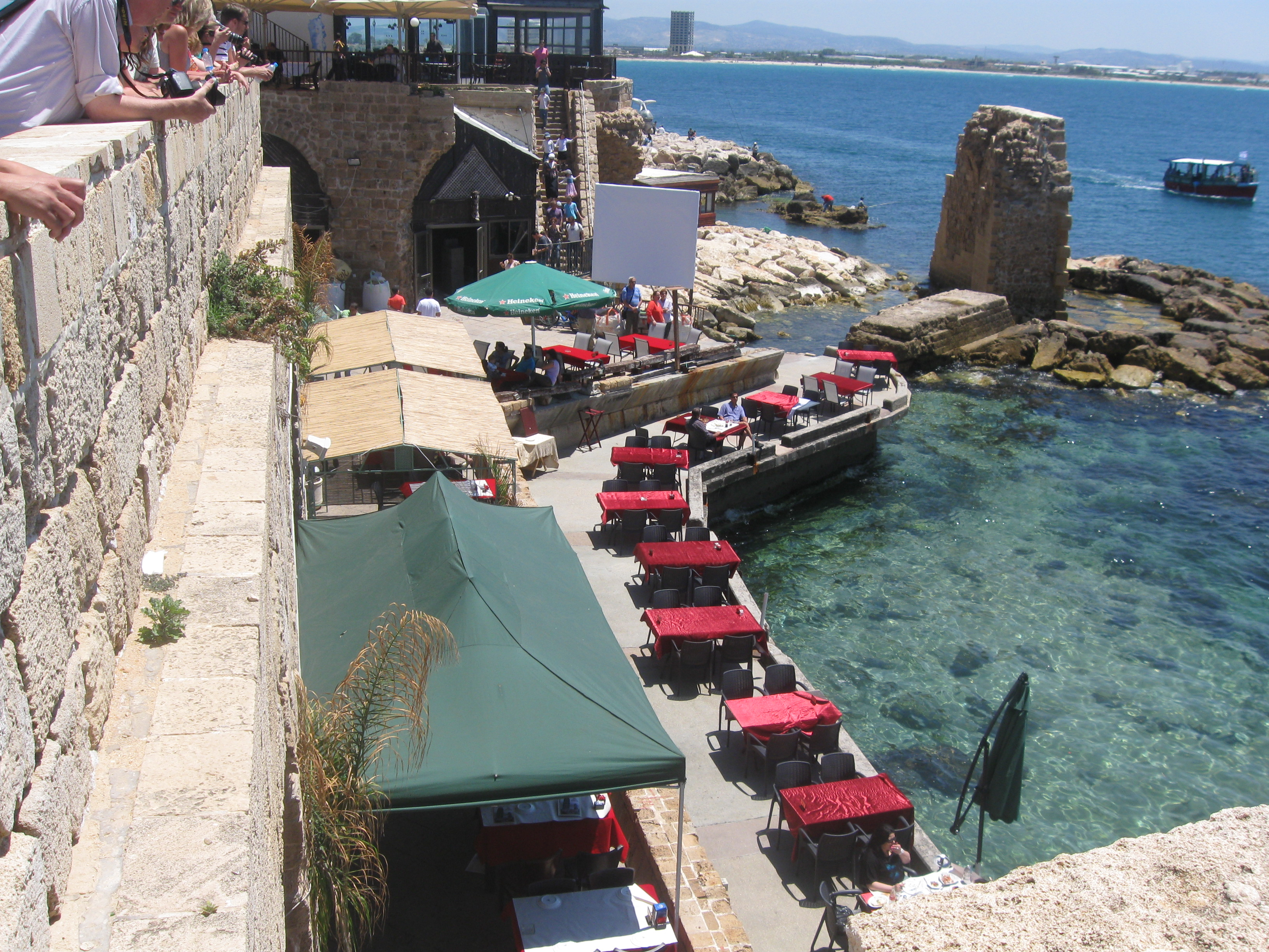 Tourism in Israel